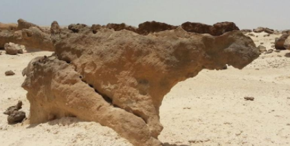 ارنب منحوت